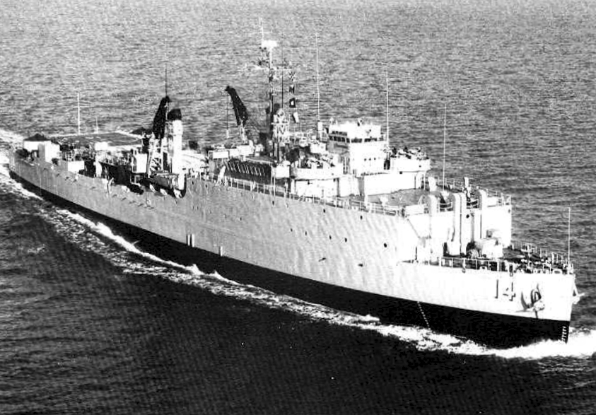 The U.S. Navy dock landing ship USS Rushmore (LSD-14) underway in the Mediterranean Sea, in 1965.